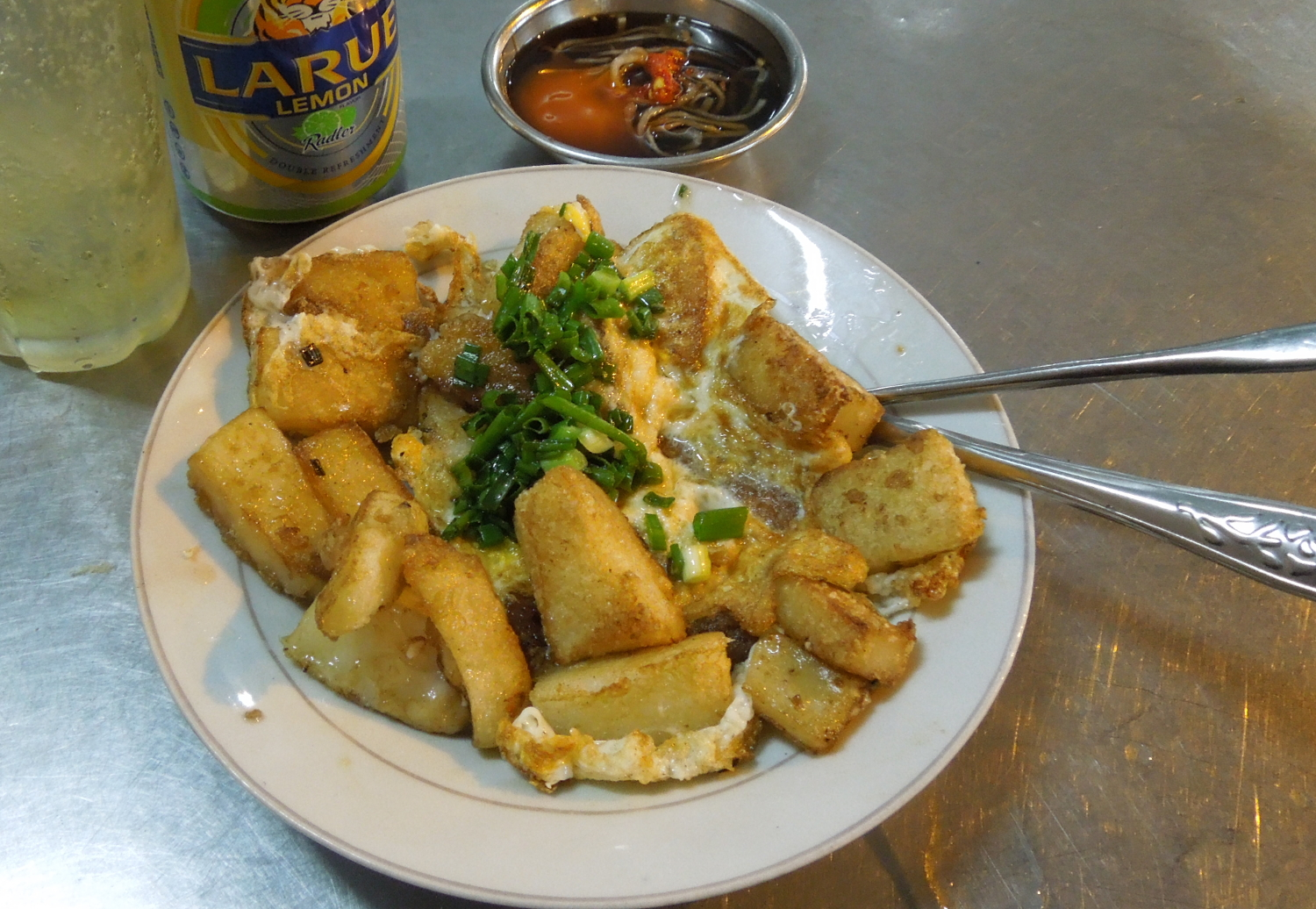 Vietnamese cuisine "bot chien". Dec 2015, at Thai Binh market Saigon.